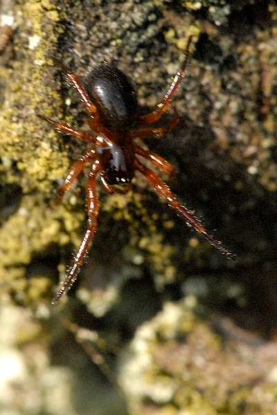 Centromerus sylvaticus from Commanster, Belgian High Ardennes .